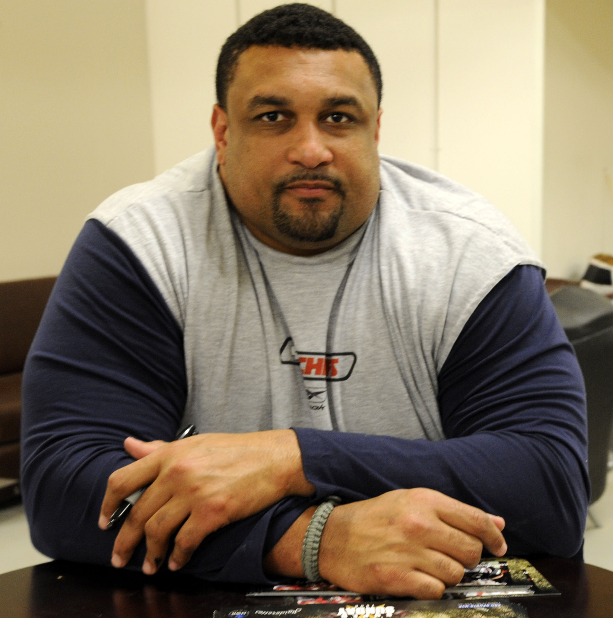 Willie Roaf, Retired National Football League’s (NFL) Most Valuable Player (MVP) with the Kansas City Chiefs comes to show support for the military troops on Camp Basra in Basra, Iraq, Feb. 3, 2009.Willie Roaf made 11 Professional Bowls in 13 seasons and is sure to be a future NFL Hall of Famer. VIRIN: 090203-A-0832C-005